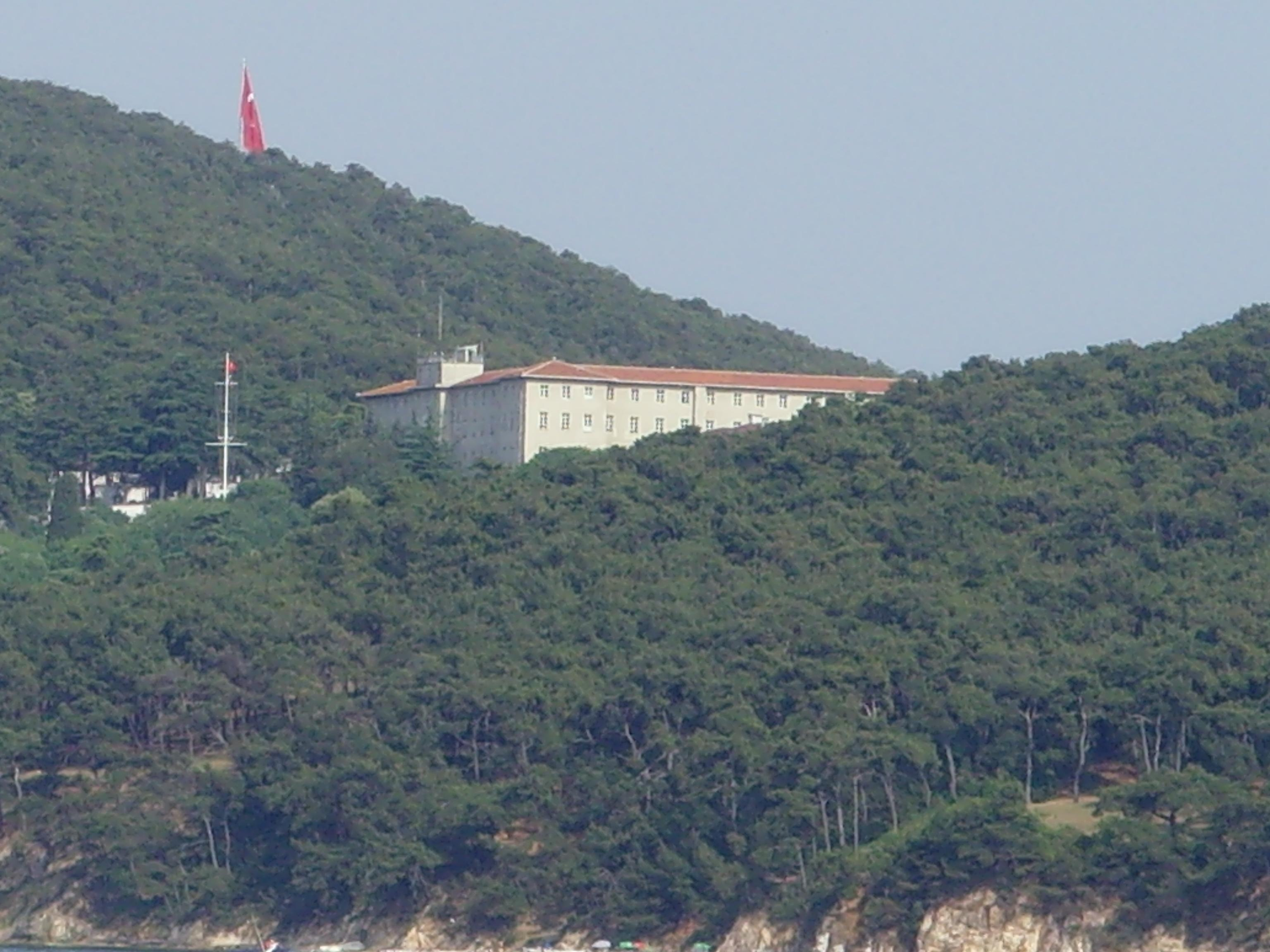 Sanatorium on Heybeliada, İstanbul